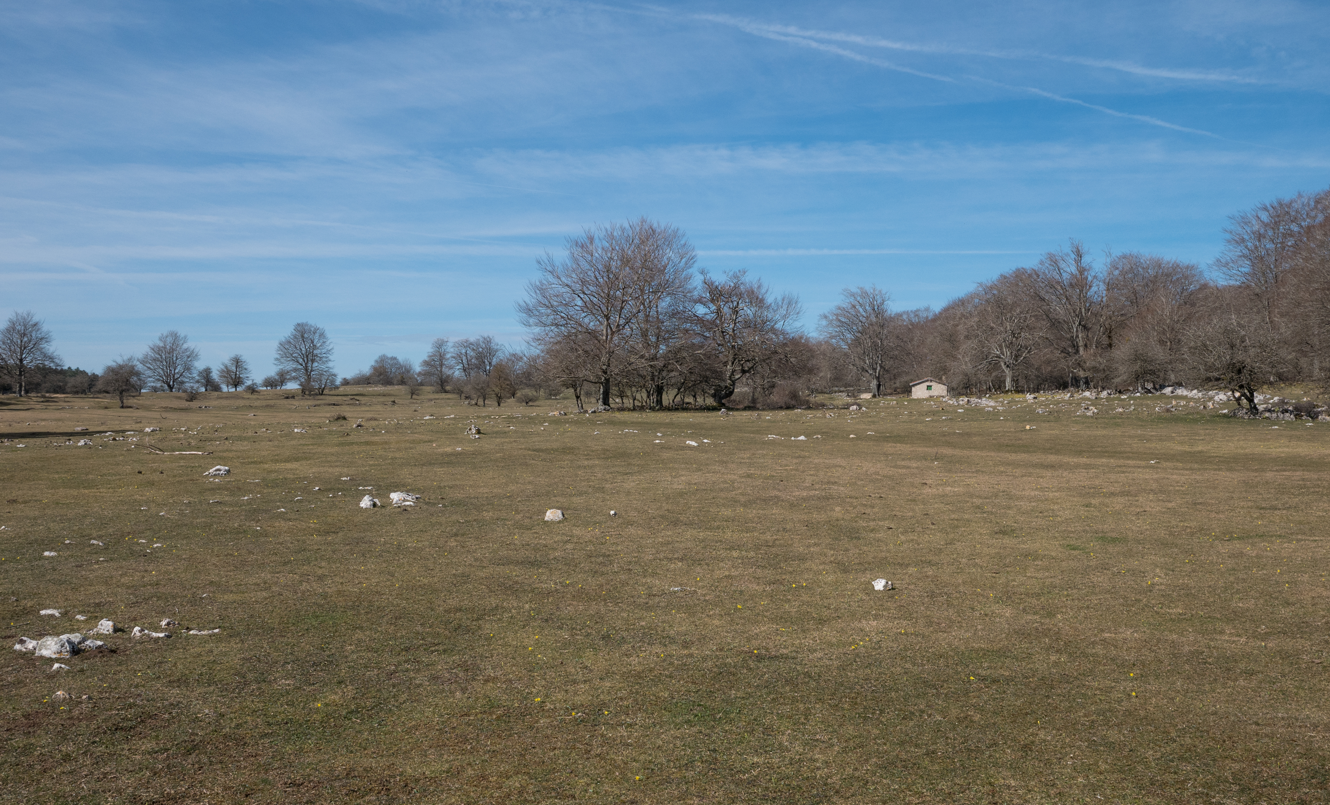 Mountain pasture in the Entzia mountain range. Álava, Basque Country, Spain